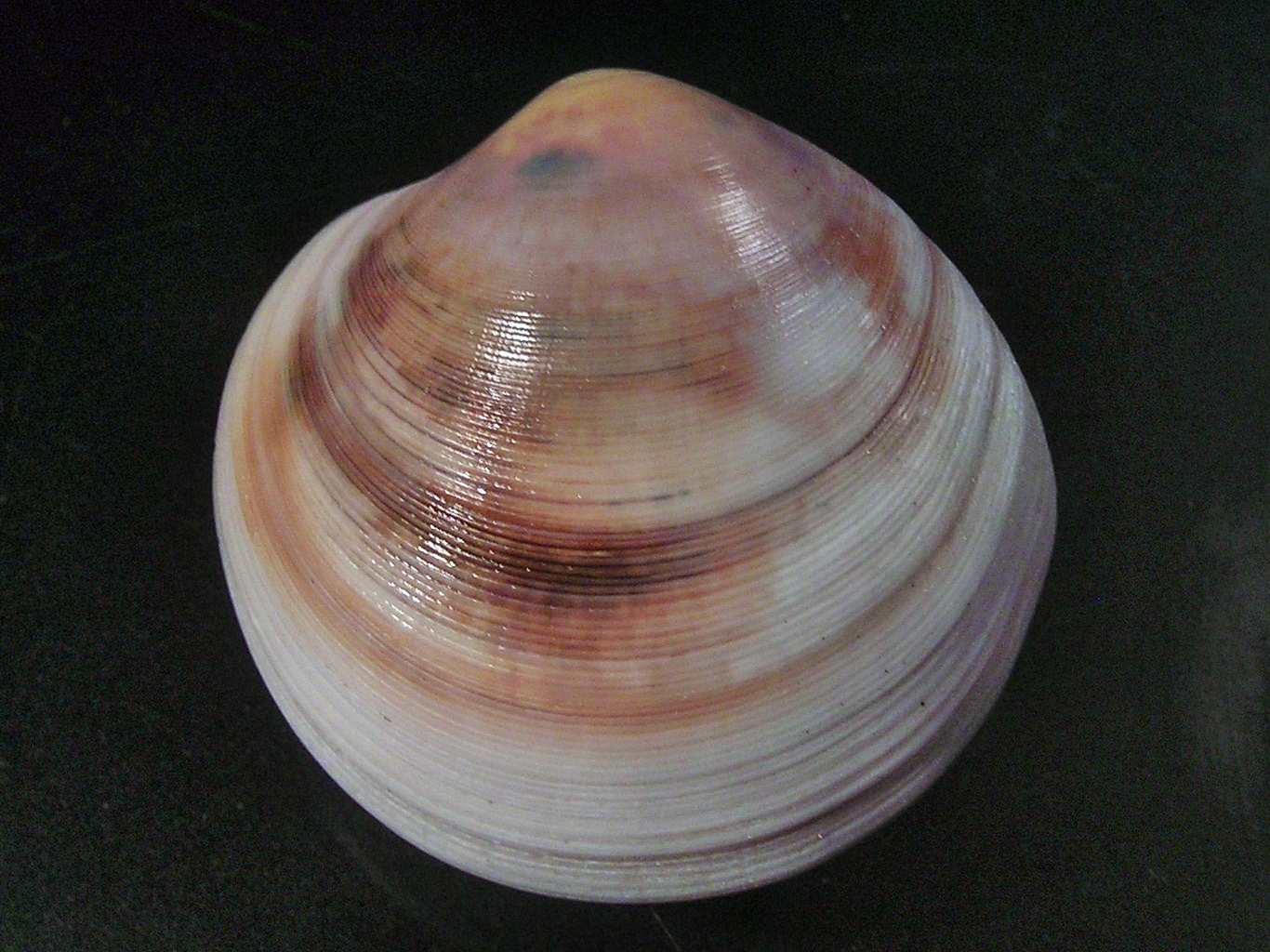 Dosinia coerulea L. A. Reeve, 1850, a venus clam from the family Veneridae